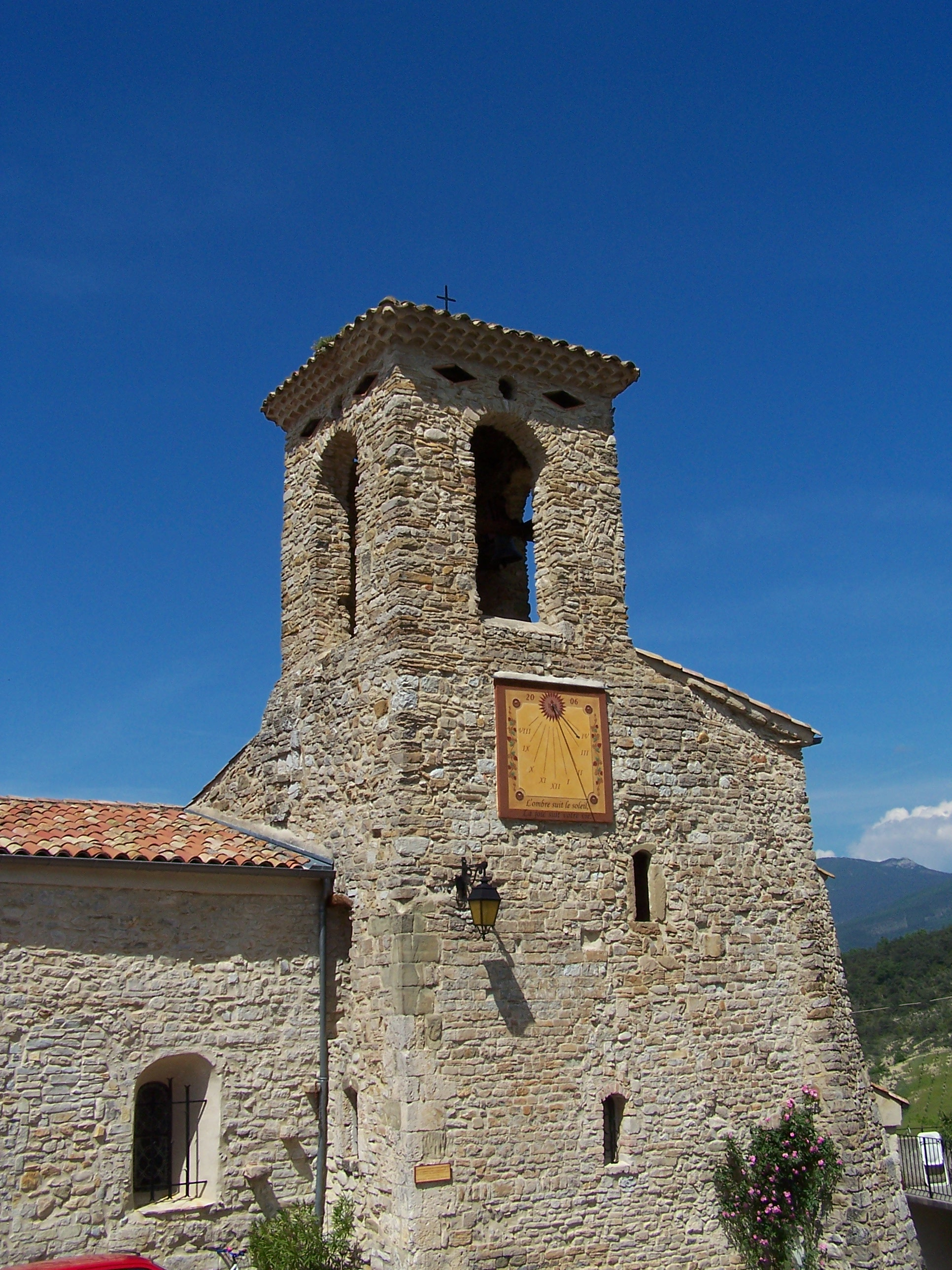 Bell tower of the church in Saint-Sauveur-en-Diois, with a sundial.